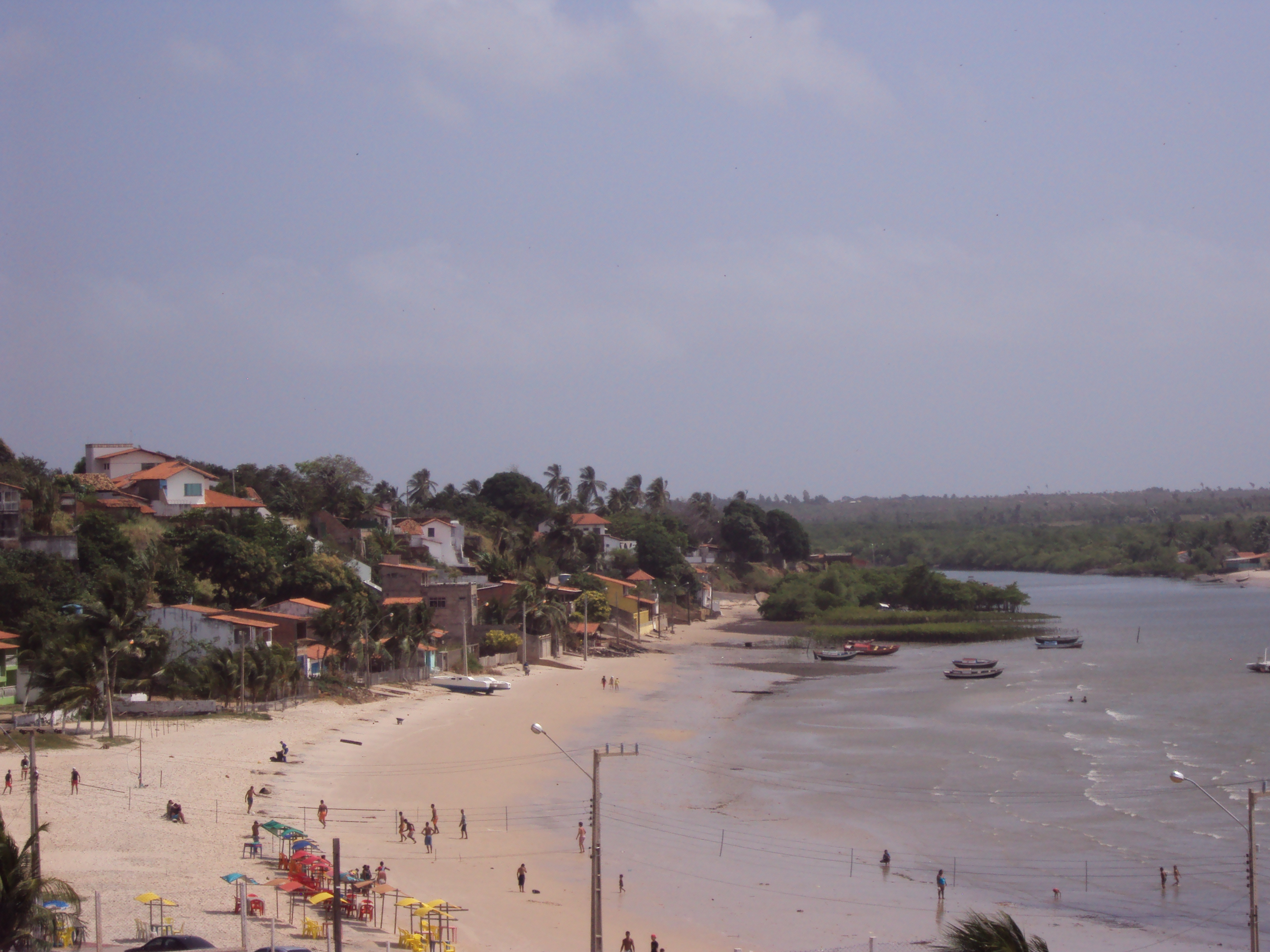 São José de Ribamar, Brazil